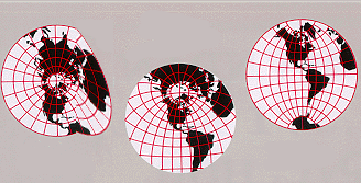 Uses content from public domain image from USGS. See .